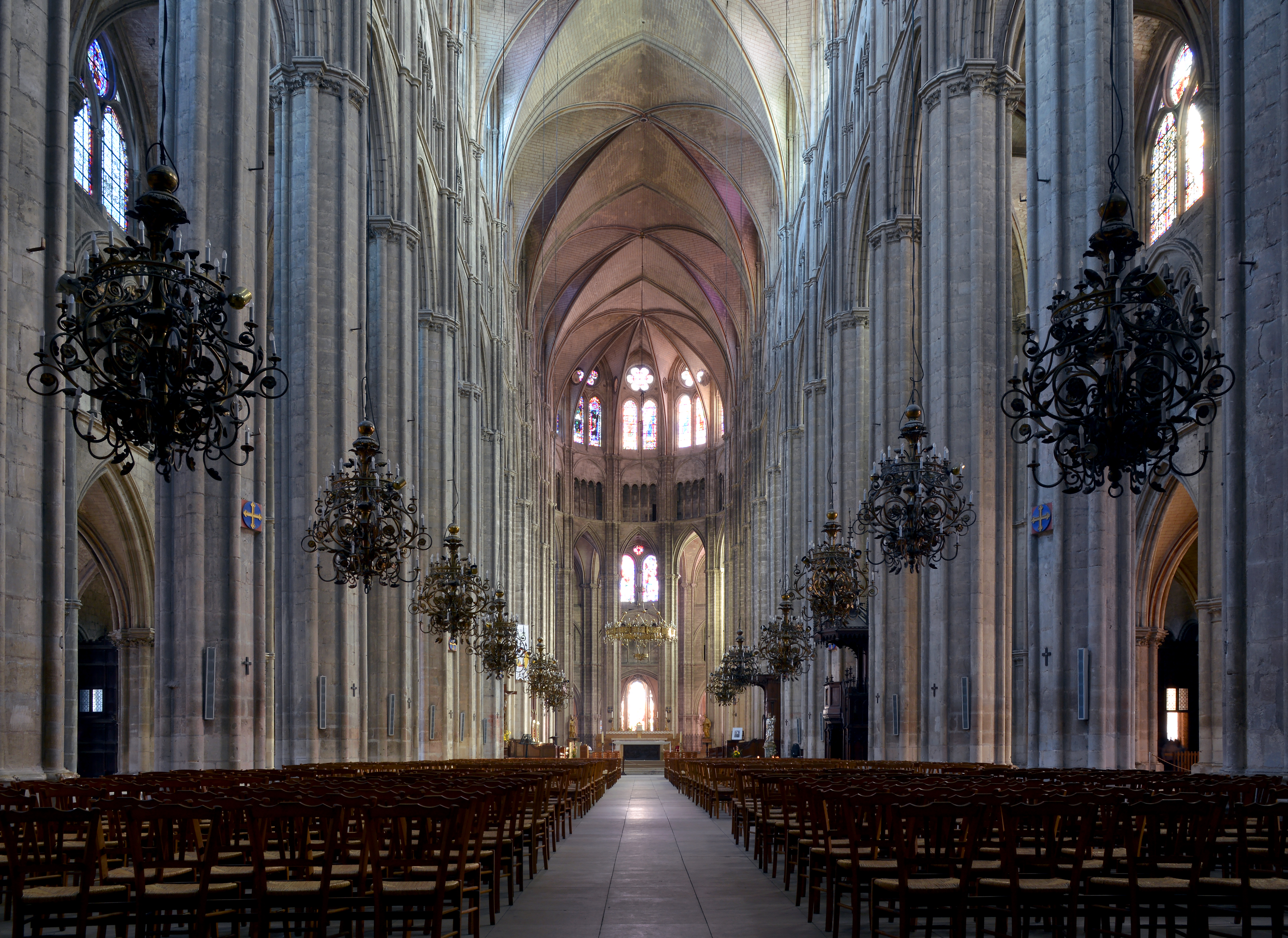 Interior of Cathédrale de Bourges